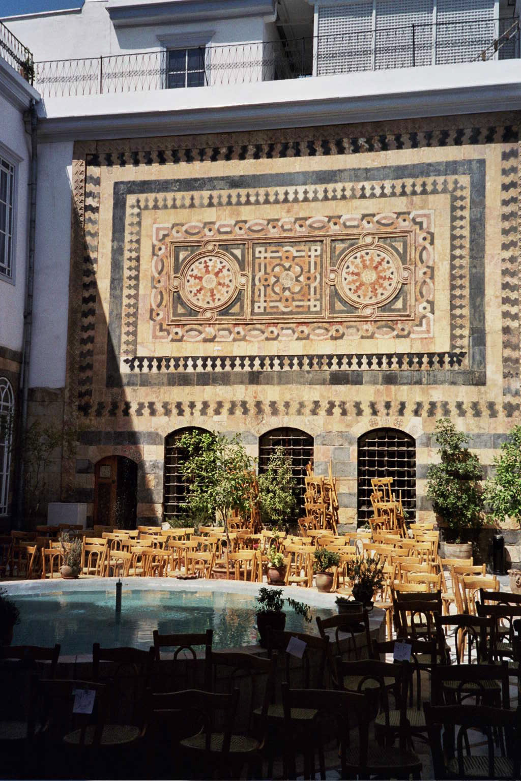 also in the central courtyard